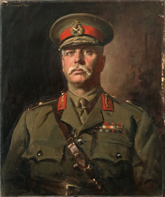 A portrait of Brigadier General Charles Frederick Cox, CB, CMG, DSO, MID, (1863–1944), also previously n (Boer) War, 1st Australian Imperial Force, 6th Australian Light Horse Regiment, 1st Australian Light Horse Brigade.